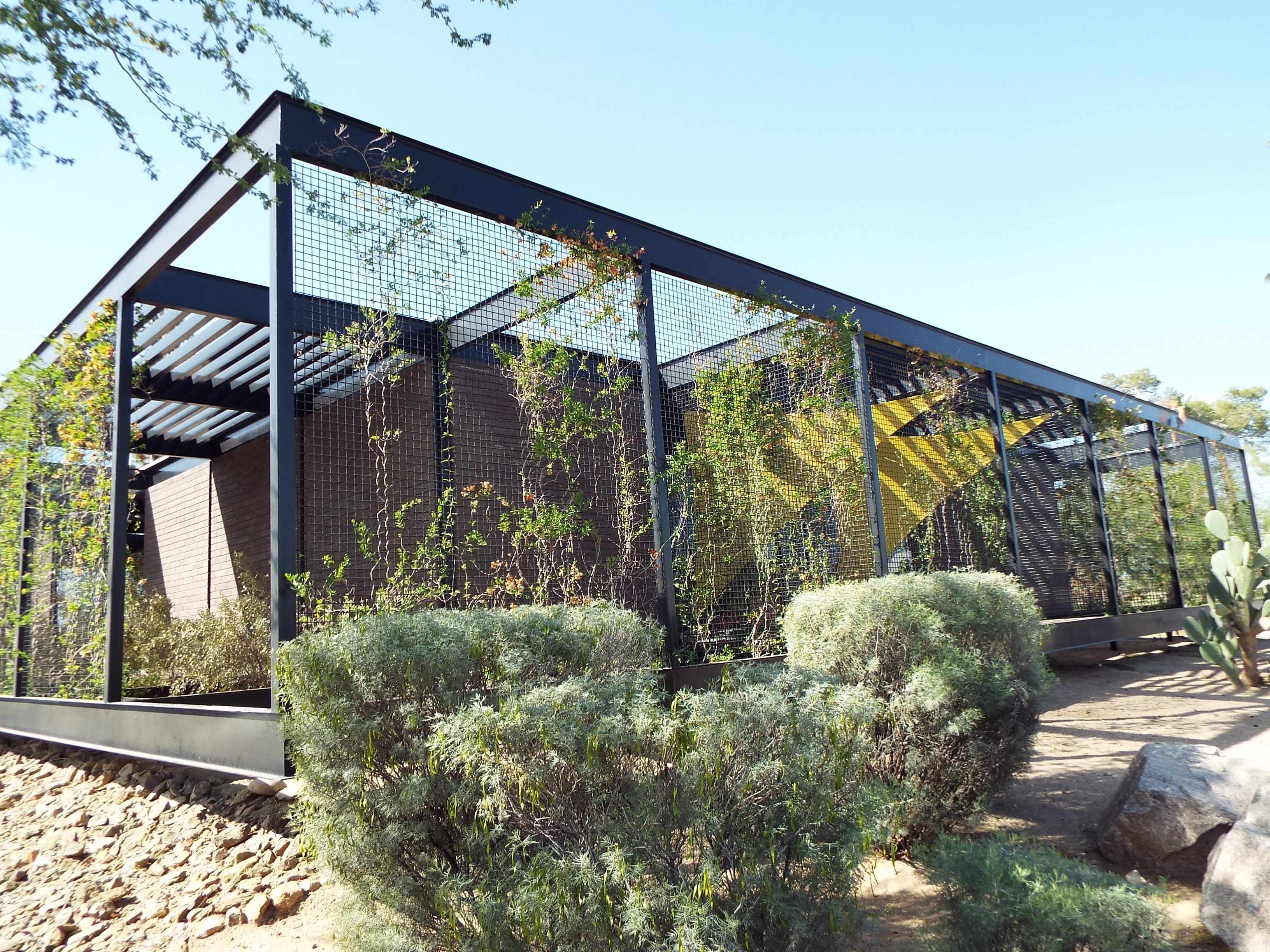 The Vlassis Ruzow and Associates Building was built in 1974. It is located at 1545 W. Thomas Road in Phoenix, Arizona. The structure is listed in the National Register of Historic Places on April 12, 2007, reference #07000279, as part of the Margarita Historic District.